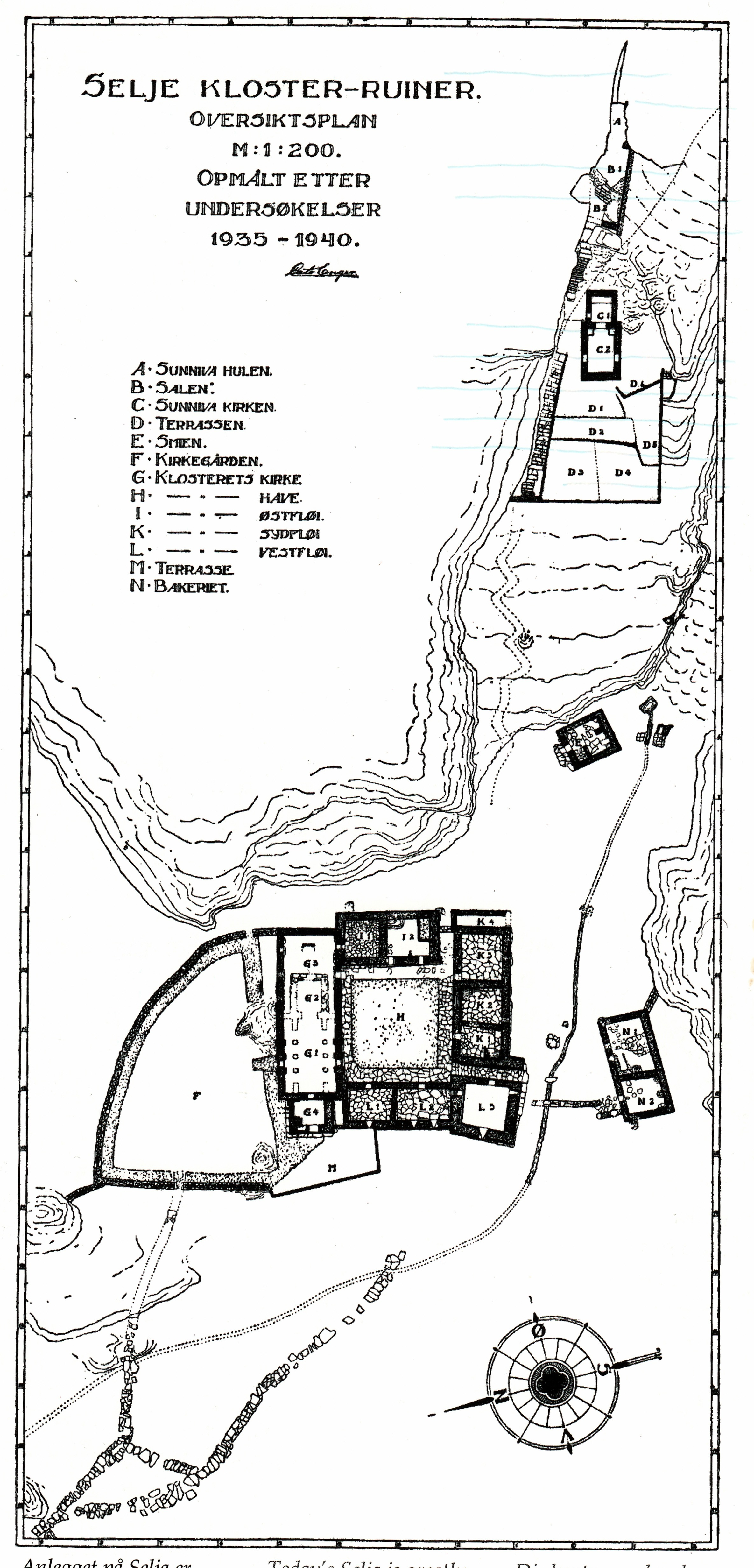 Map over Selje Abbey, Selje, Norway